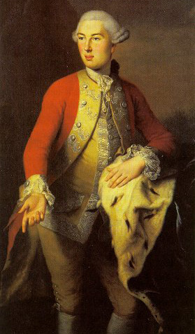 Charles of Hesse-Cassel (1744-1836)